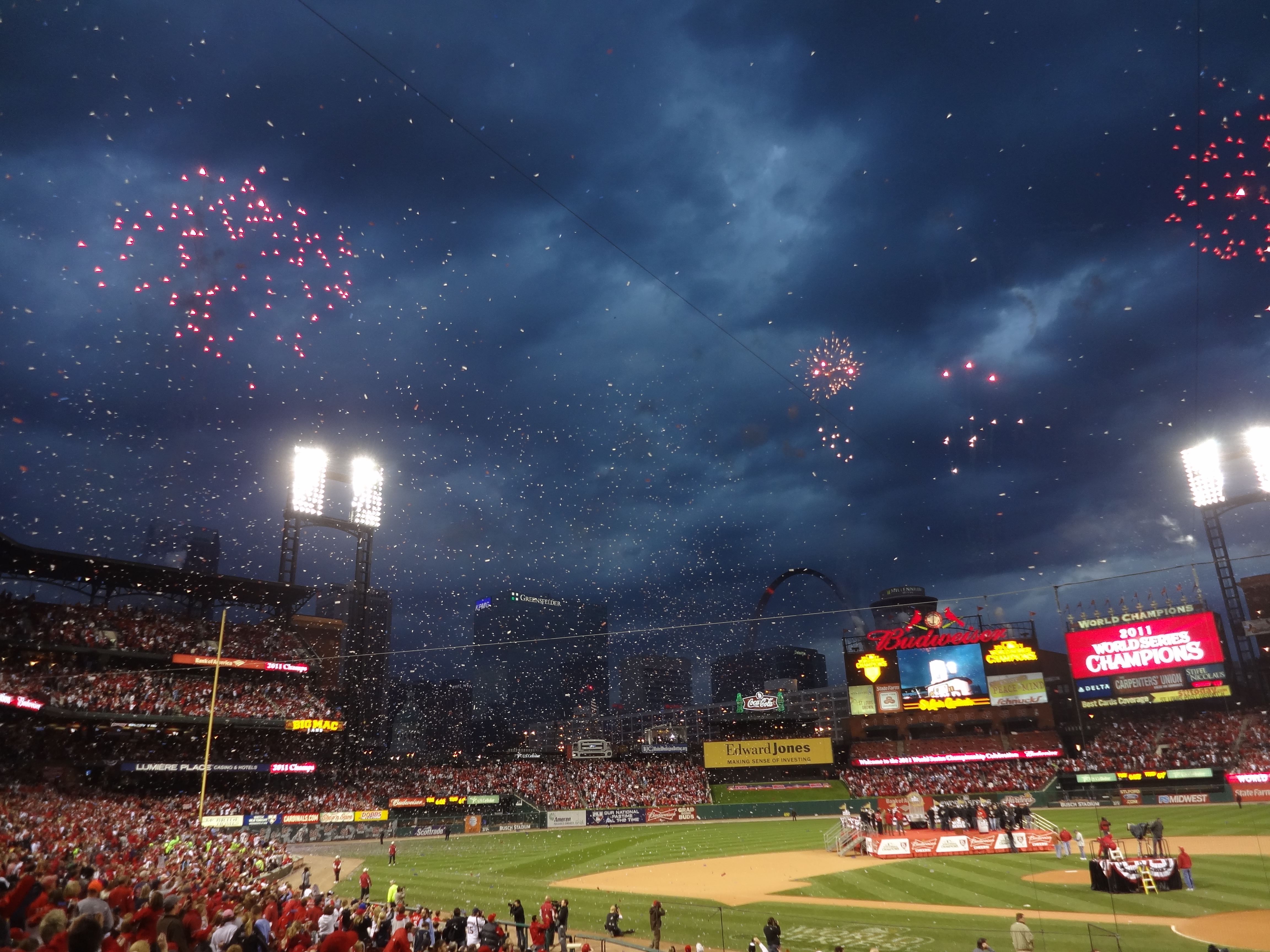 2011 World Series celebration